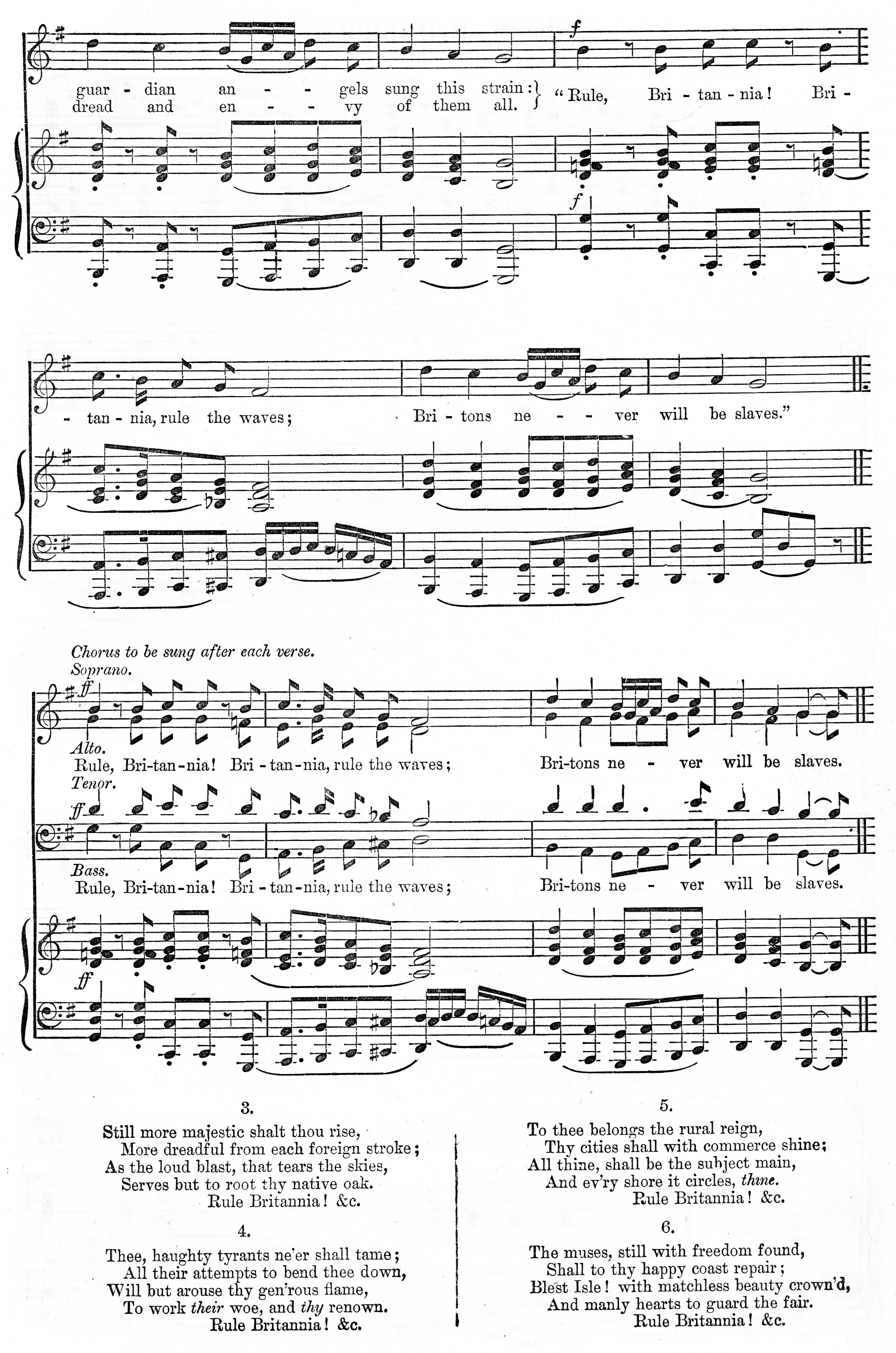 Second page (of two) to the sheet music of "Rule, Britannia!" by James Thomson (lyrics) and Thomas Arne (music). One of the most popular British patriotic tunes.